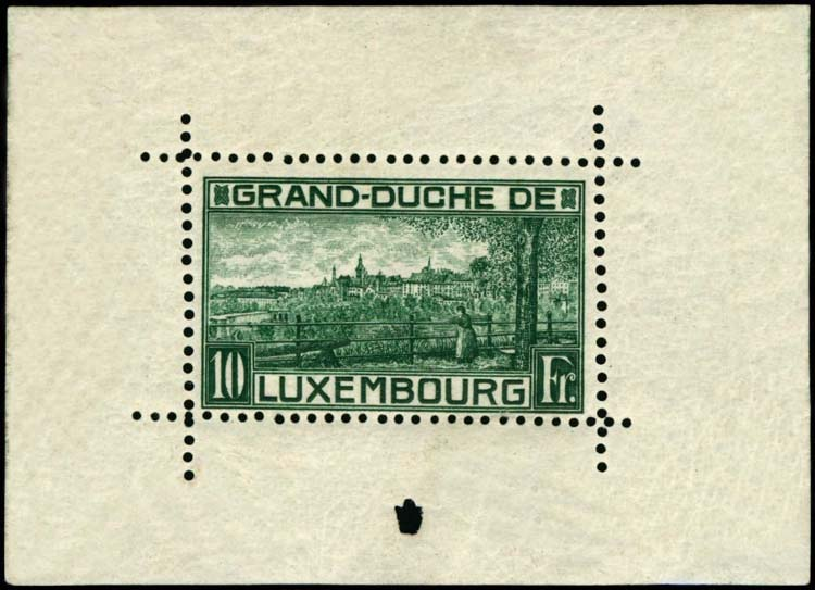 First souvenir sheet of the world, Luxembourg, 1923, Scott #151.